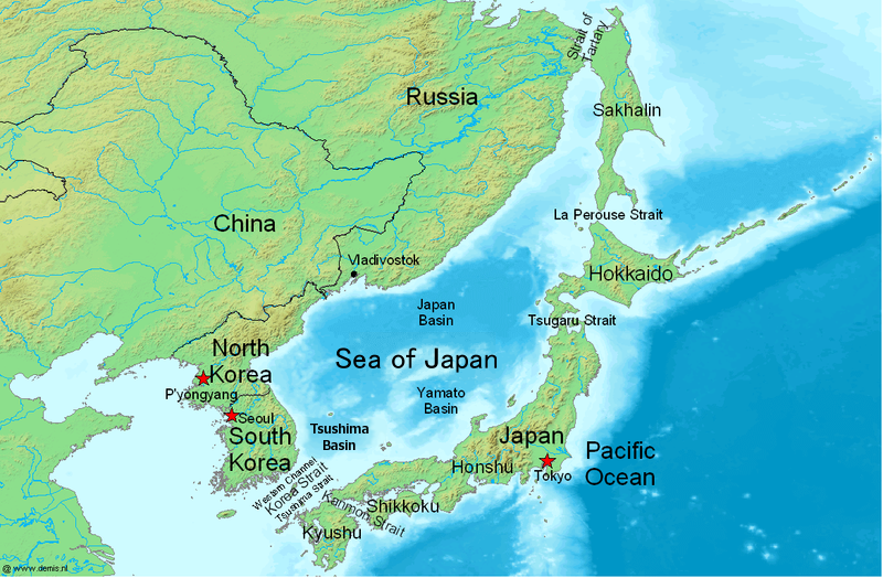 Sea of Japan without East Sea in Parenthesis